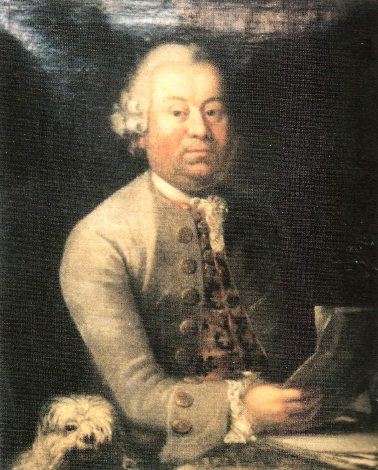 Andreas Schickhardt